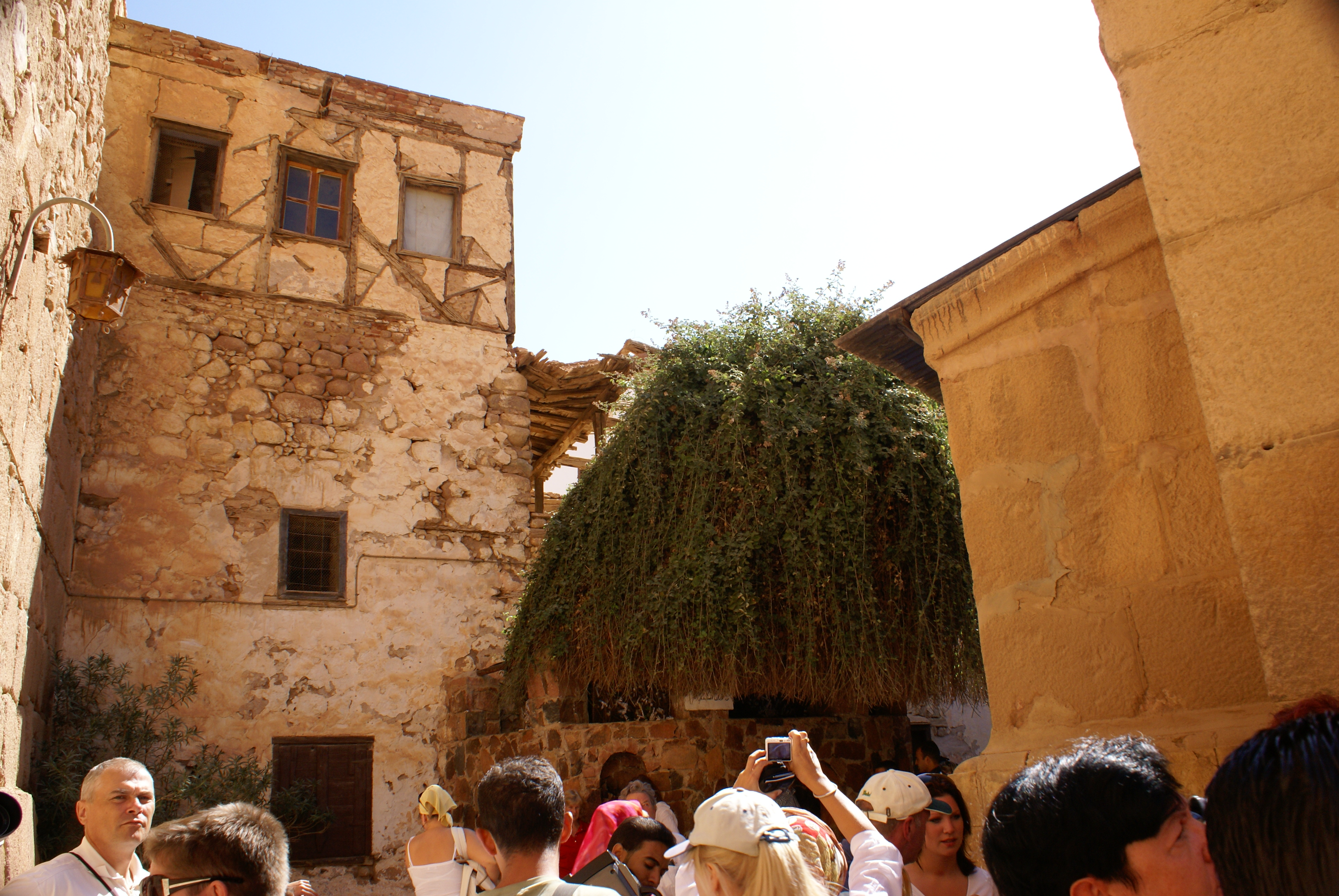 A Rubus sanctus bush in Saint Catherine's Monastery at the base of Mount Sinai, Egypt. This specific bush is traditionally believed to be the very same bush through which God (JHWH) revelated himself to Moses as described in Exodus 2,23-4,18. Also visible are some parts of the monastery.